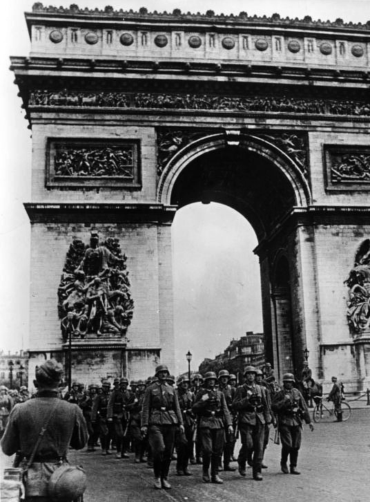 Parade of German troops in Paris. View of the troops with the Arc de Triomphe in the background.